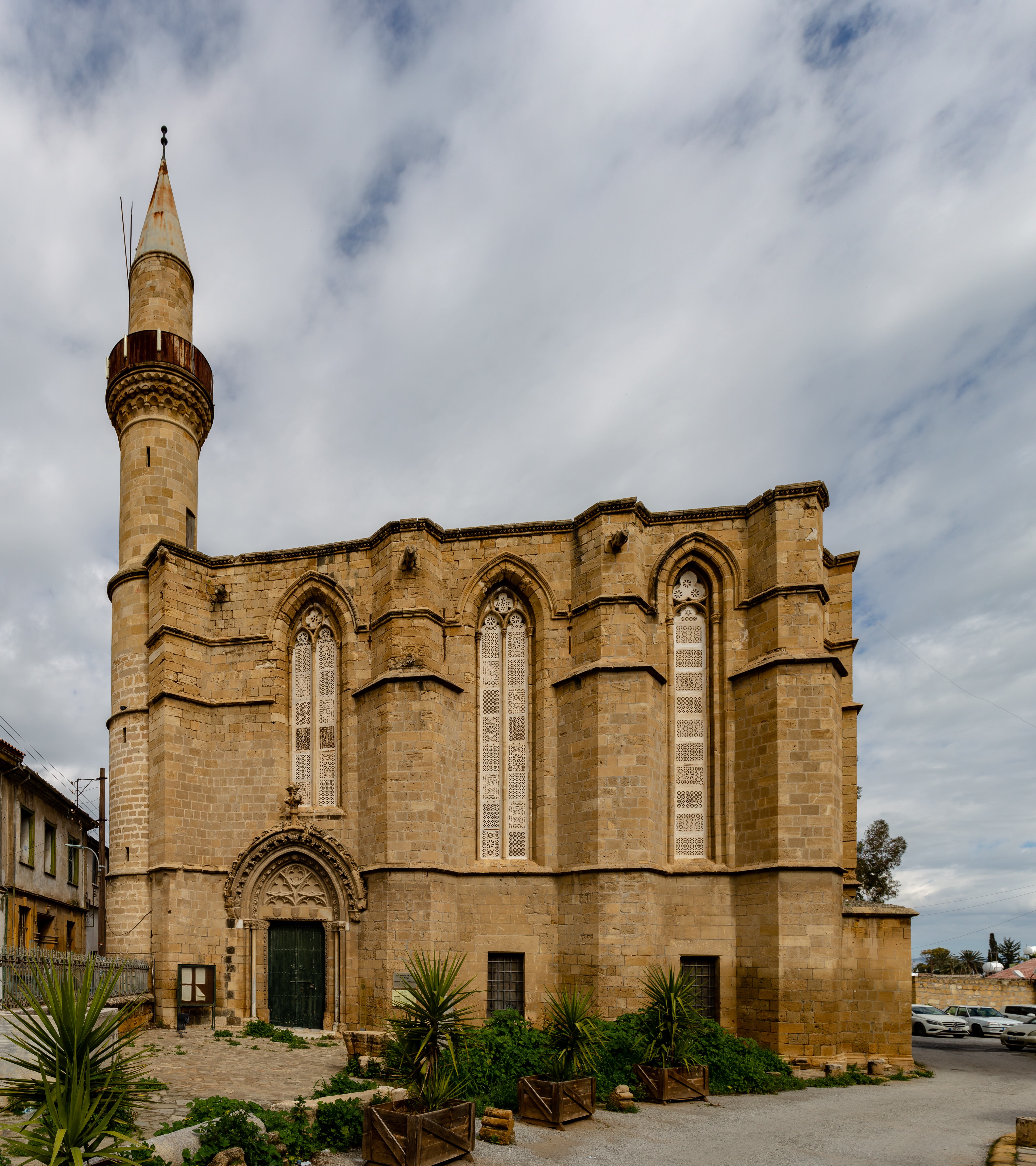 Haydarpasha Mosque, Nicosia, Cyprus